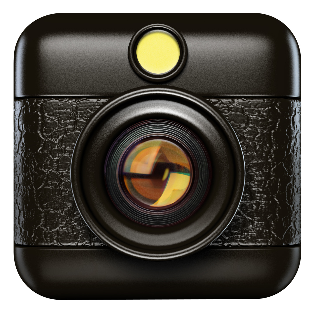 This is the App icon for Hipstamatic